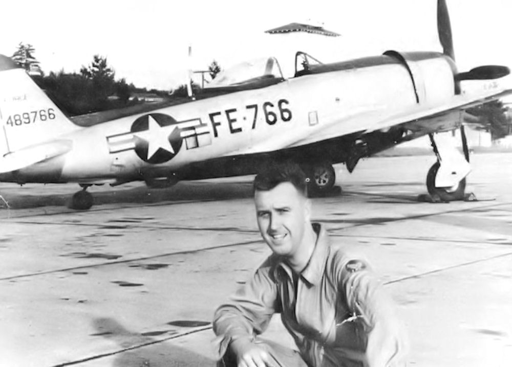 133d Fighter Squadron - Republic F-47D-30-RA Thunderbolt 44-89766. First aircraft of the 133d Fighter Squadron, New Hampshire ANG